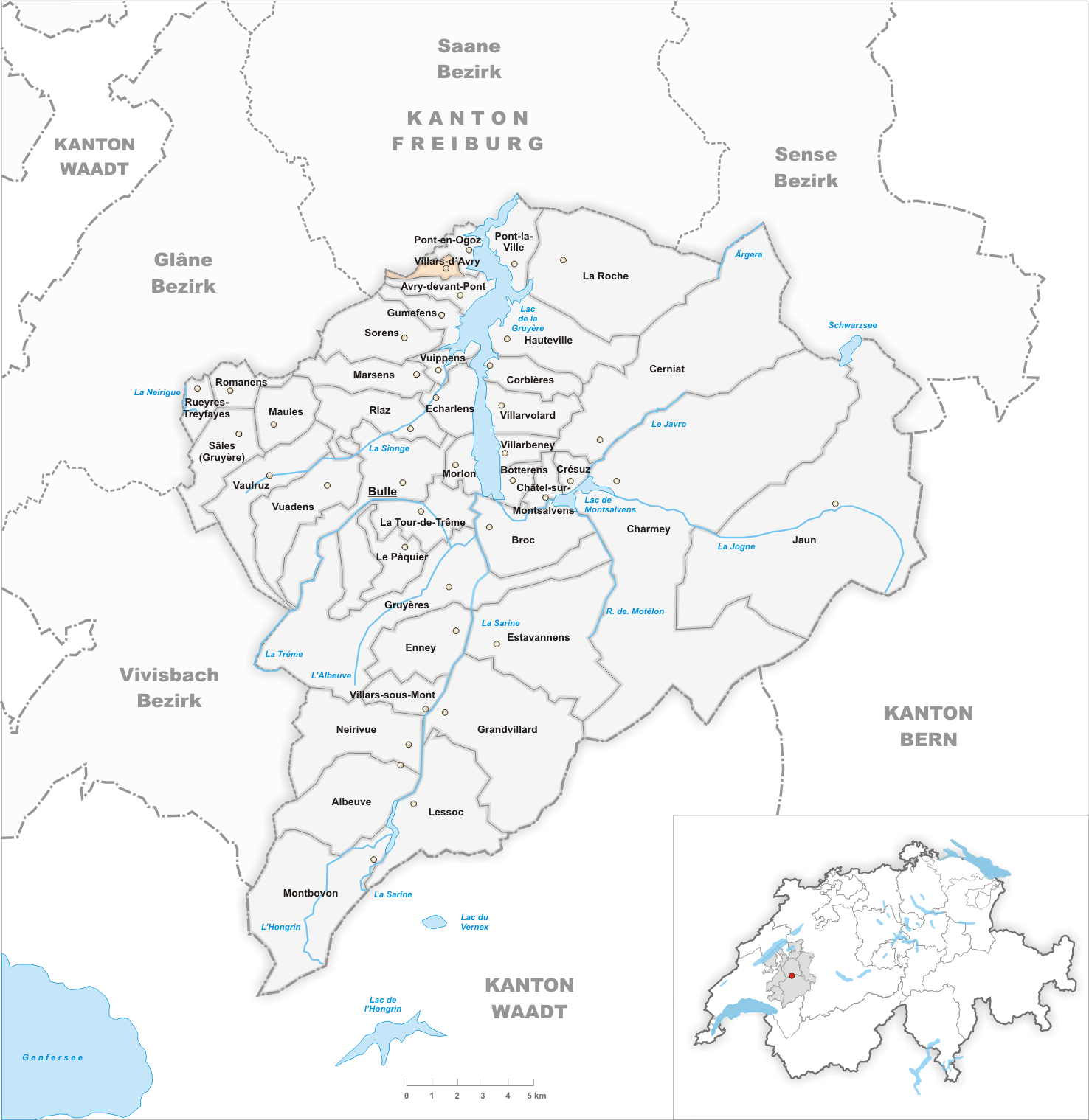 Municipality Villars-d'Avry Artist: Tschubby